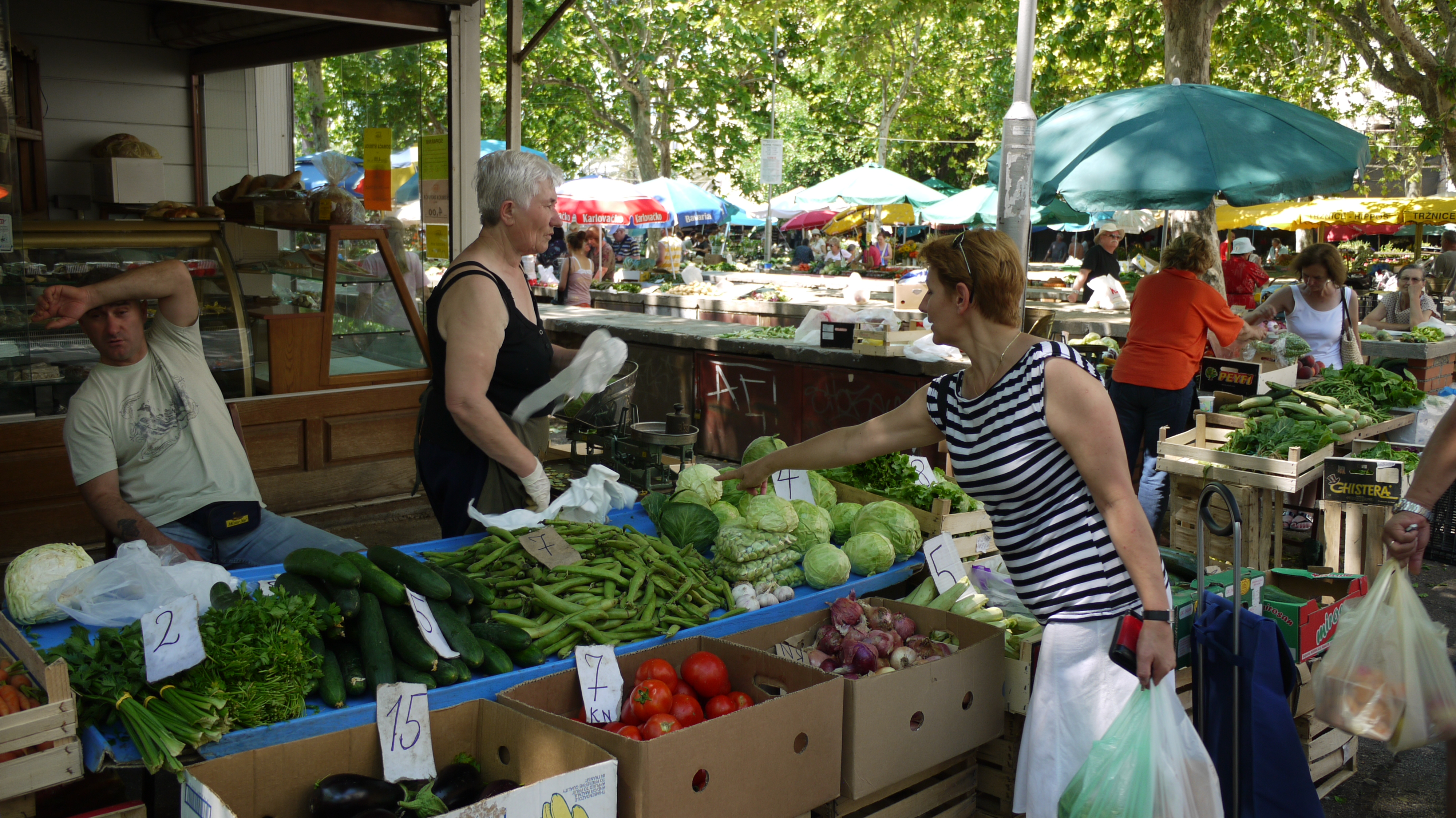 Vegetables at Pazar in Split, Croatia.